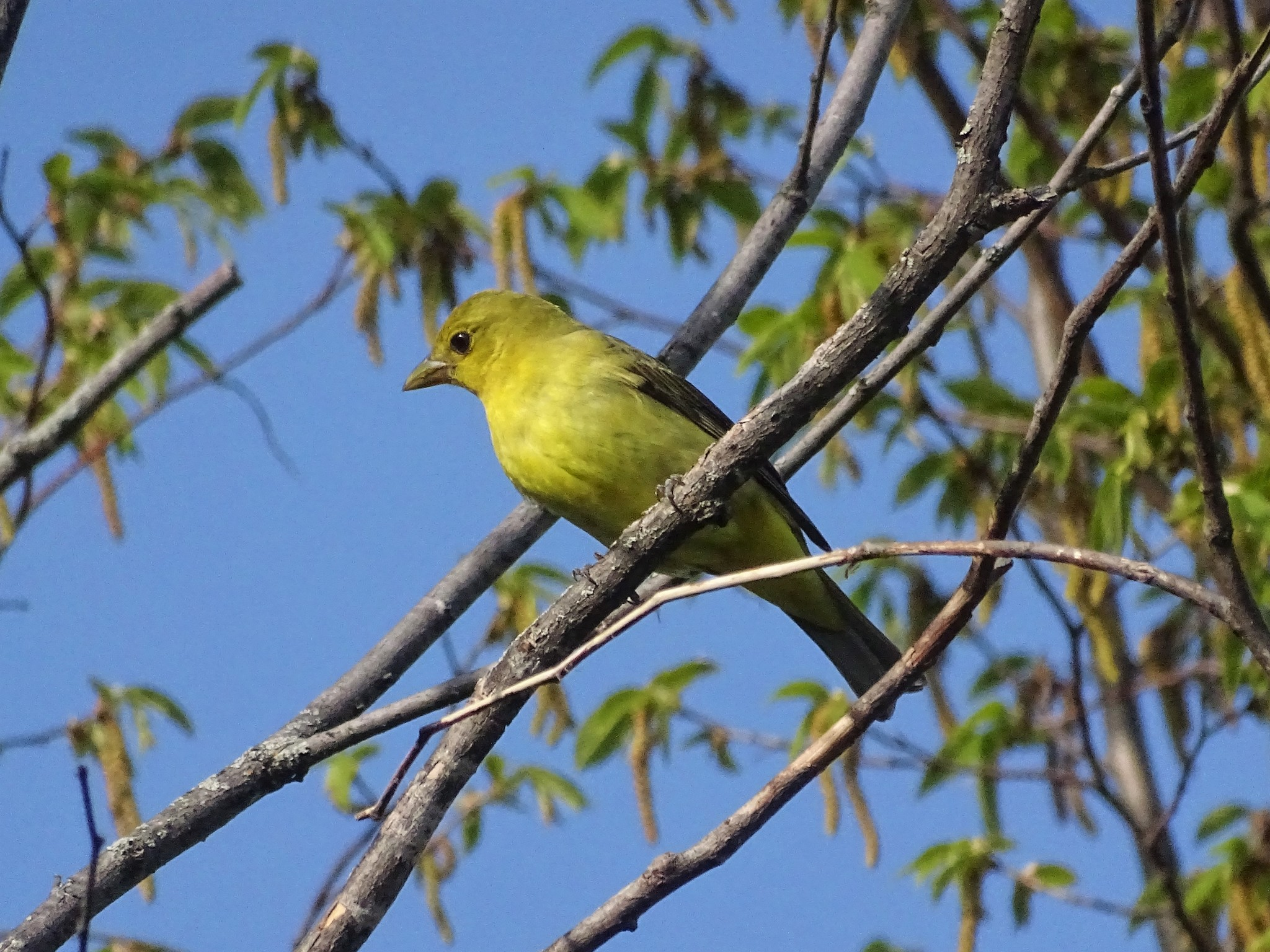 Adult female Piranga olivacea photographed in Ottawa, Canada